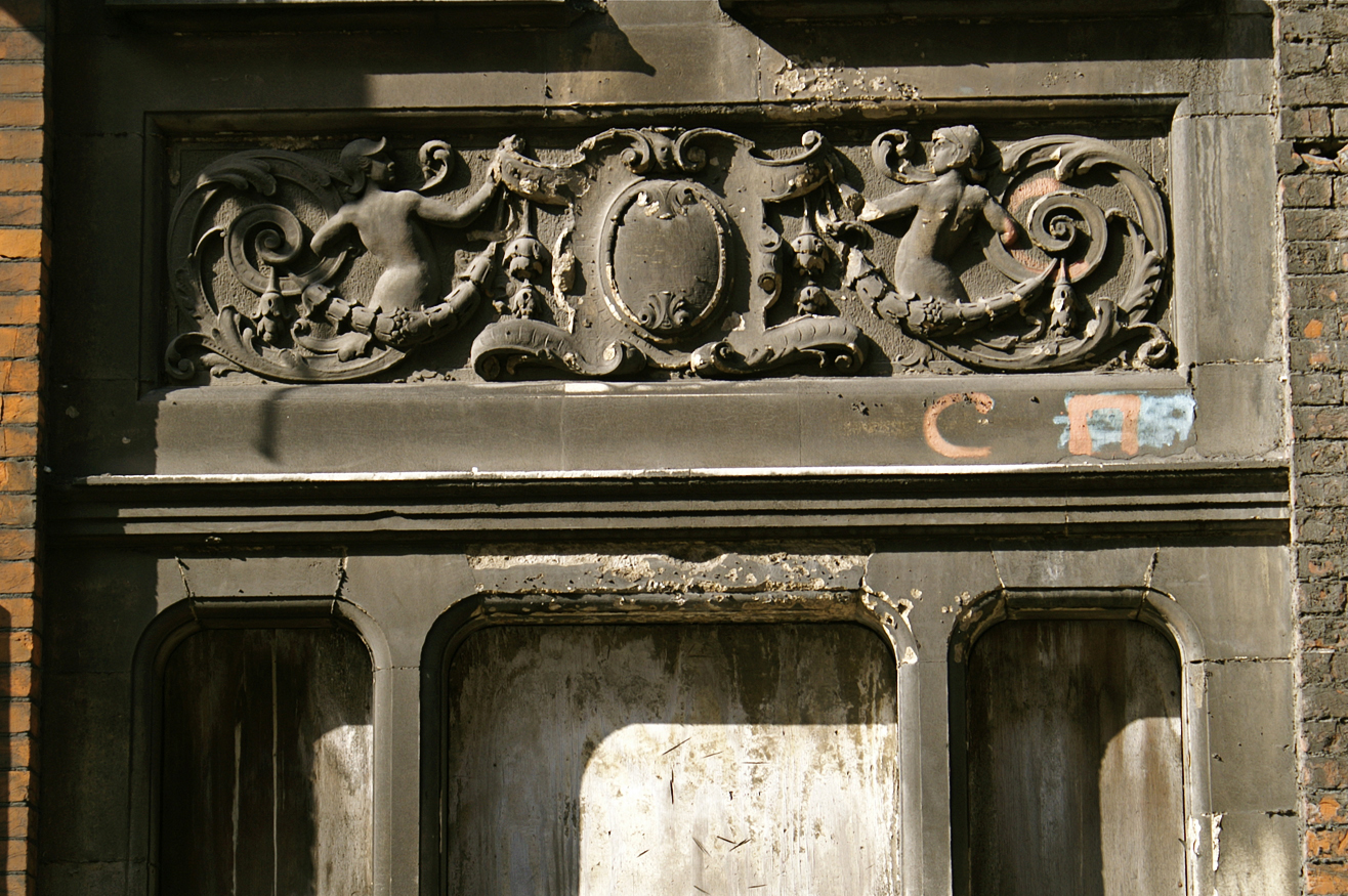 Decoration on the Eastern side of the Fish Market (1888), Smithfield, London.